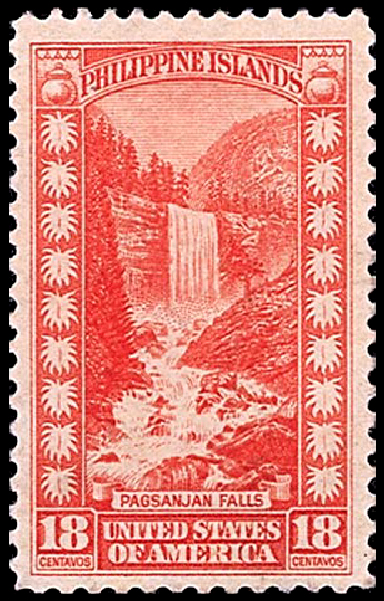 18 centavos postage stamp design error of Philippines, identified as the Pagsanjan Falls in Luzon Is. but the image is of the Vernal Falls, CA, 1932; Scott No. 357